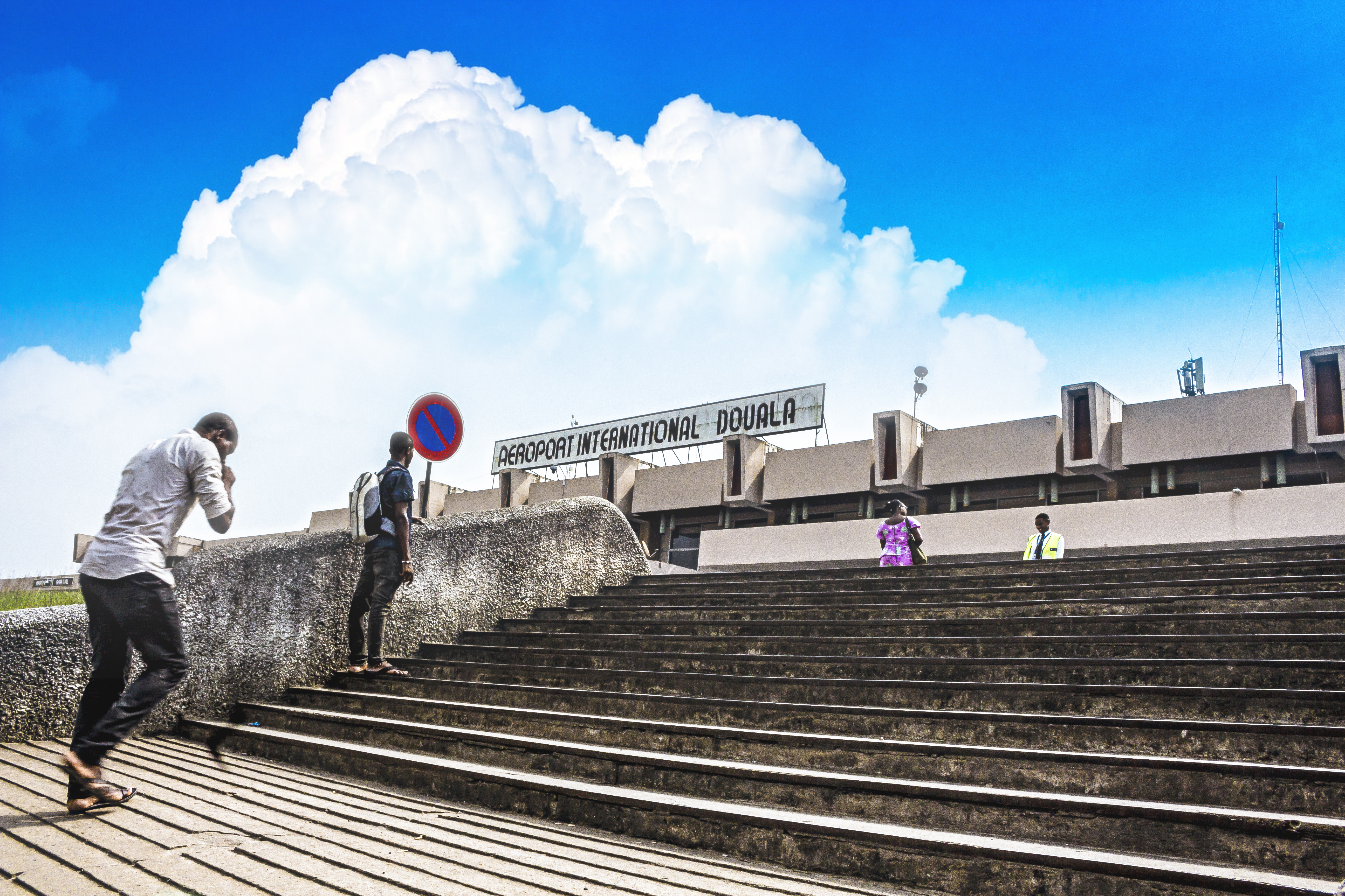 on the markets of douala airport This is an image with the theme "Africa on the Move or Transport" from: Cameroon